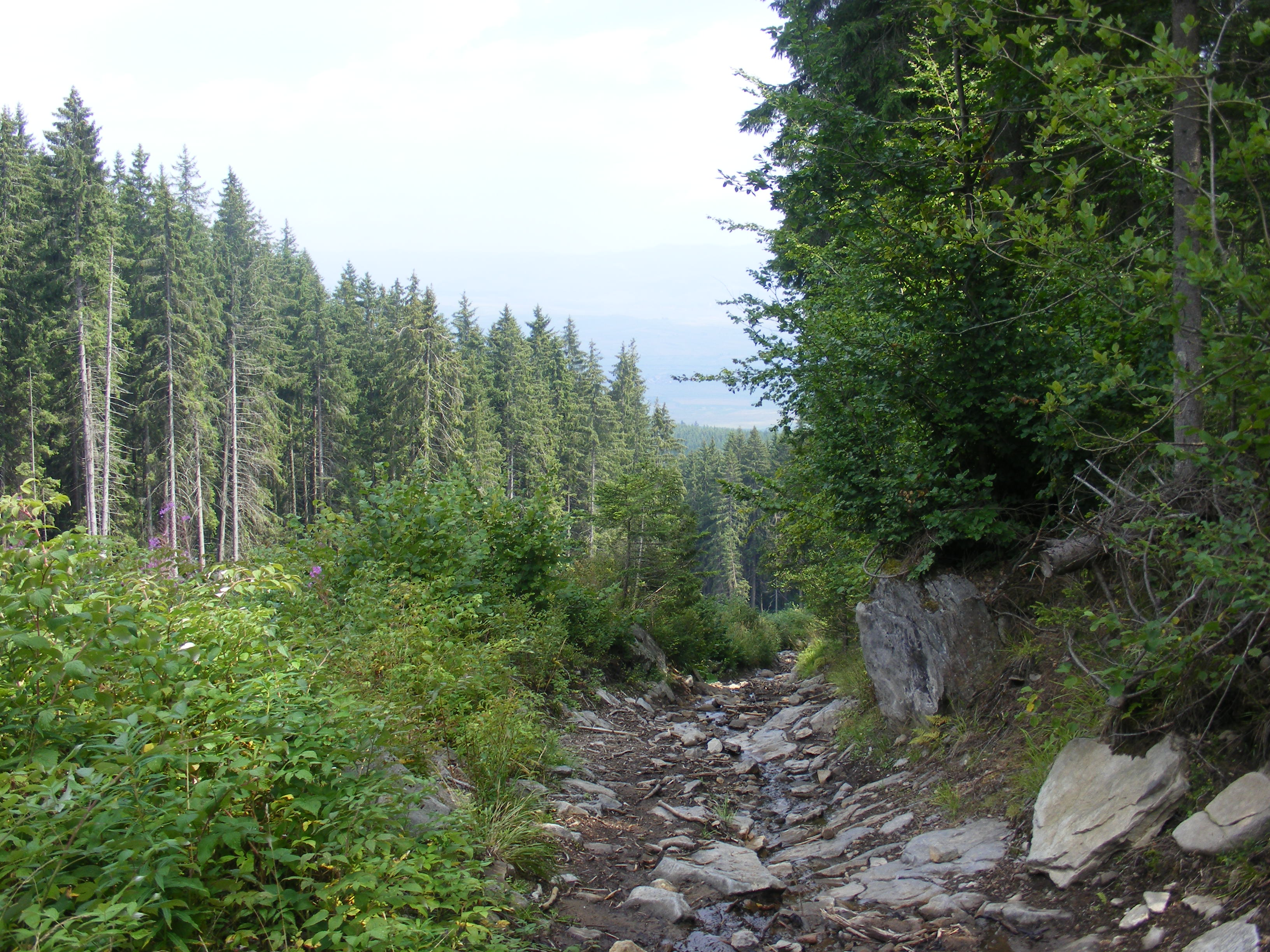 Forest in the Harghita mountains